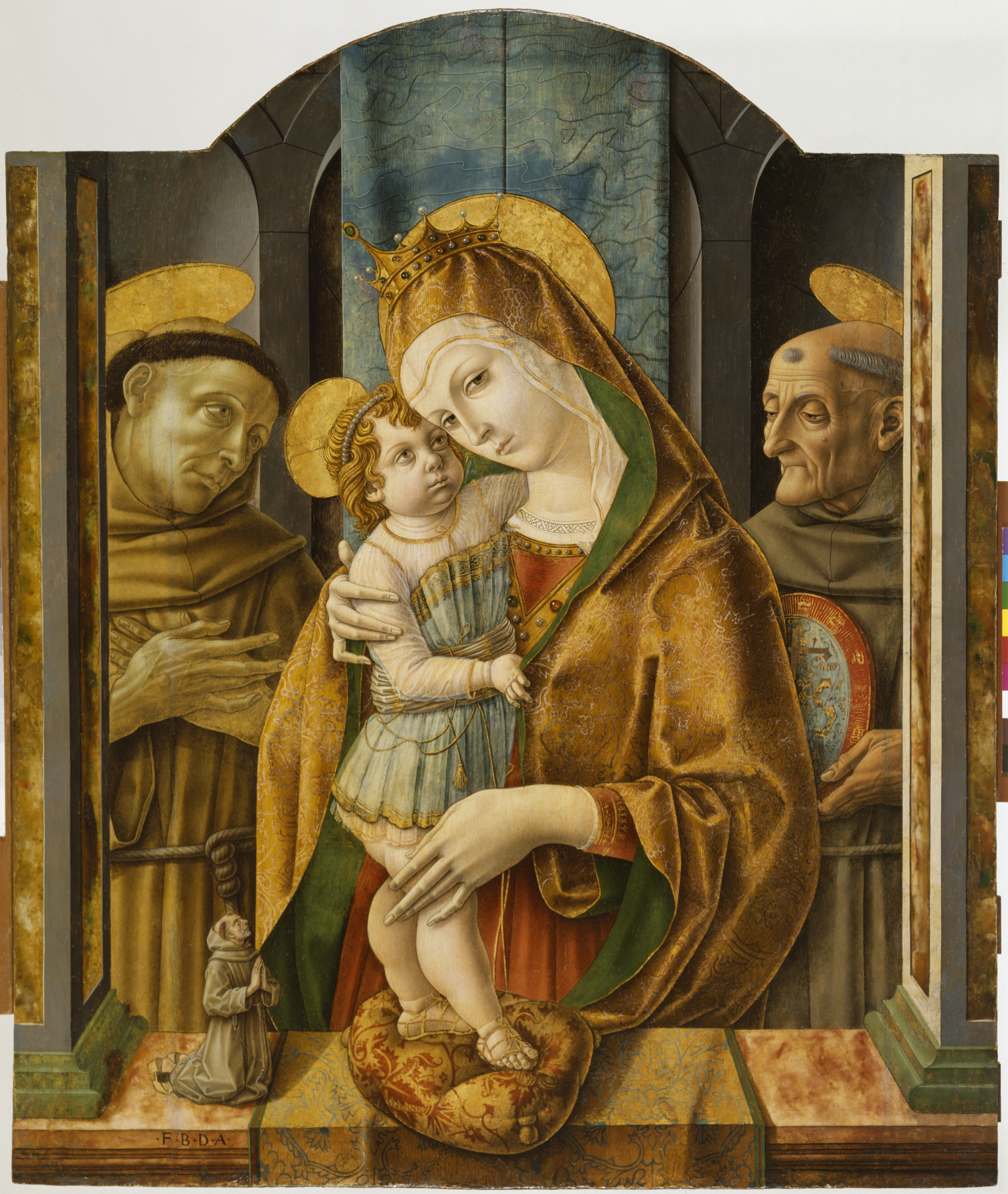 Mary's crown and the elegance of her dress reinforce the status of the embracing Virgin and Child as Queen and King of Heaven. The unknown donor-the little figure in the lower left corner-belonged to the Franciscan Order founded by St. Francis of Assisi. The initials FBDA might stand for Fra Bernardino da Ancona (Brother Bernardino of Ancona). St. Francis is standing to the left of the Madonna and Child and, on the right, is another Franciscan: St. Bernadino of Siena, holding his attribute, the plaque inscribed with Christ's initials surrounded by the rays of the sun. This altarpiece was almost certainly made for a private oratory, or chapel, in a convent in the Marches (eastern-central Italy) where Crivelli was active. The panel displays Crivelli's original style of employing sharp outlines, splendid surface textures, and striking illusionist effects, such as the cushion on which Christ stands that seems to extend into the viewer's space.